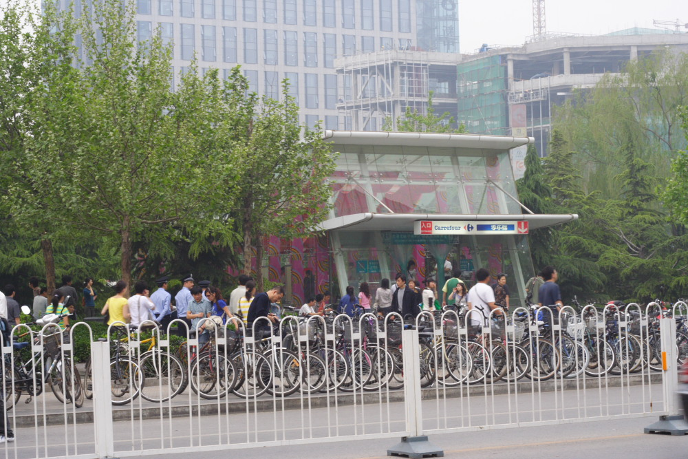 Carrefour store in Beijing Zhongguancun.